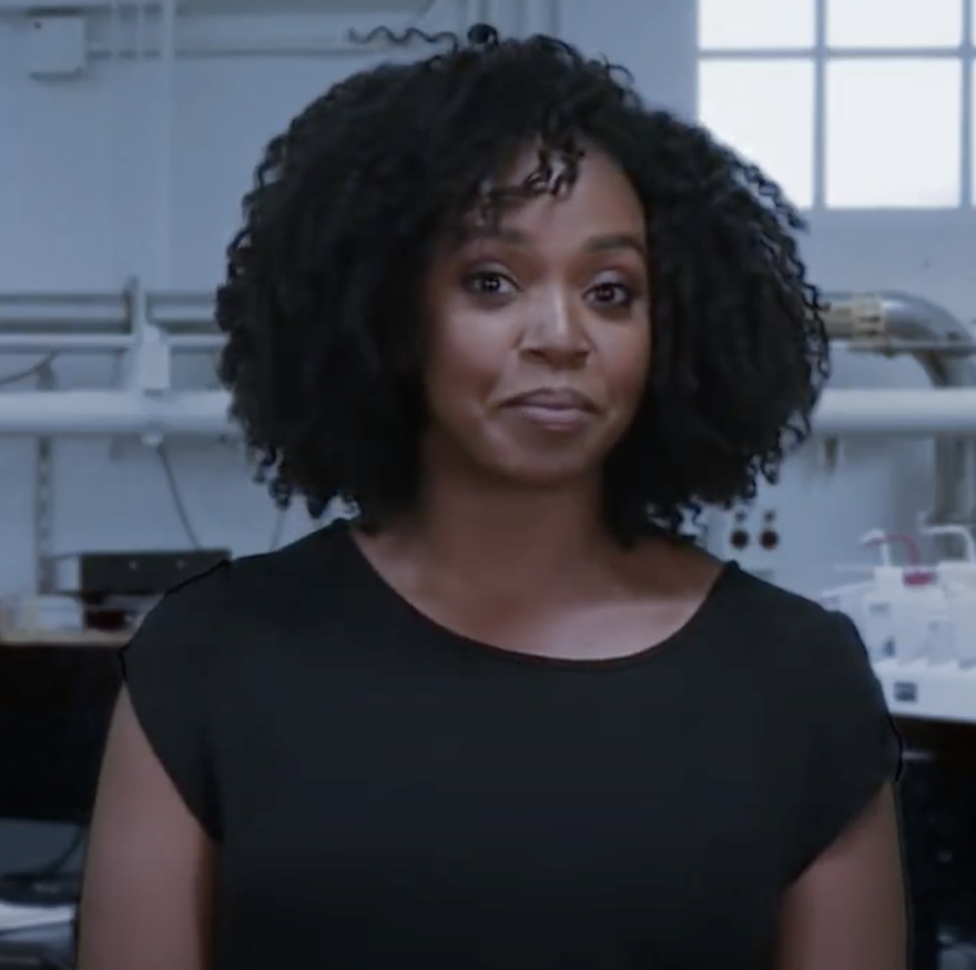 Jerrika Hinton as a "science expert" in a video by NASA’s Universe of Learning